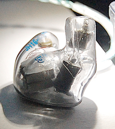 JH Audio JH16 custom in-ear monitors. View shows the 8 balanced armatures inside the IEM.